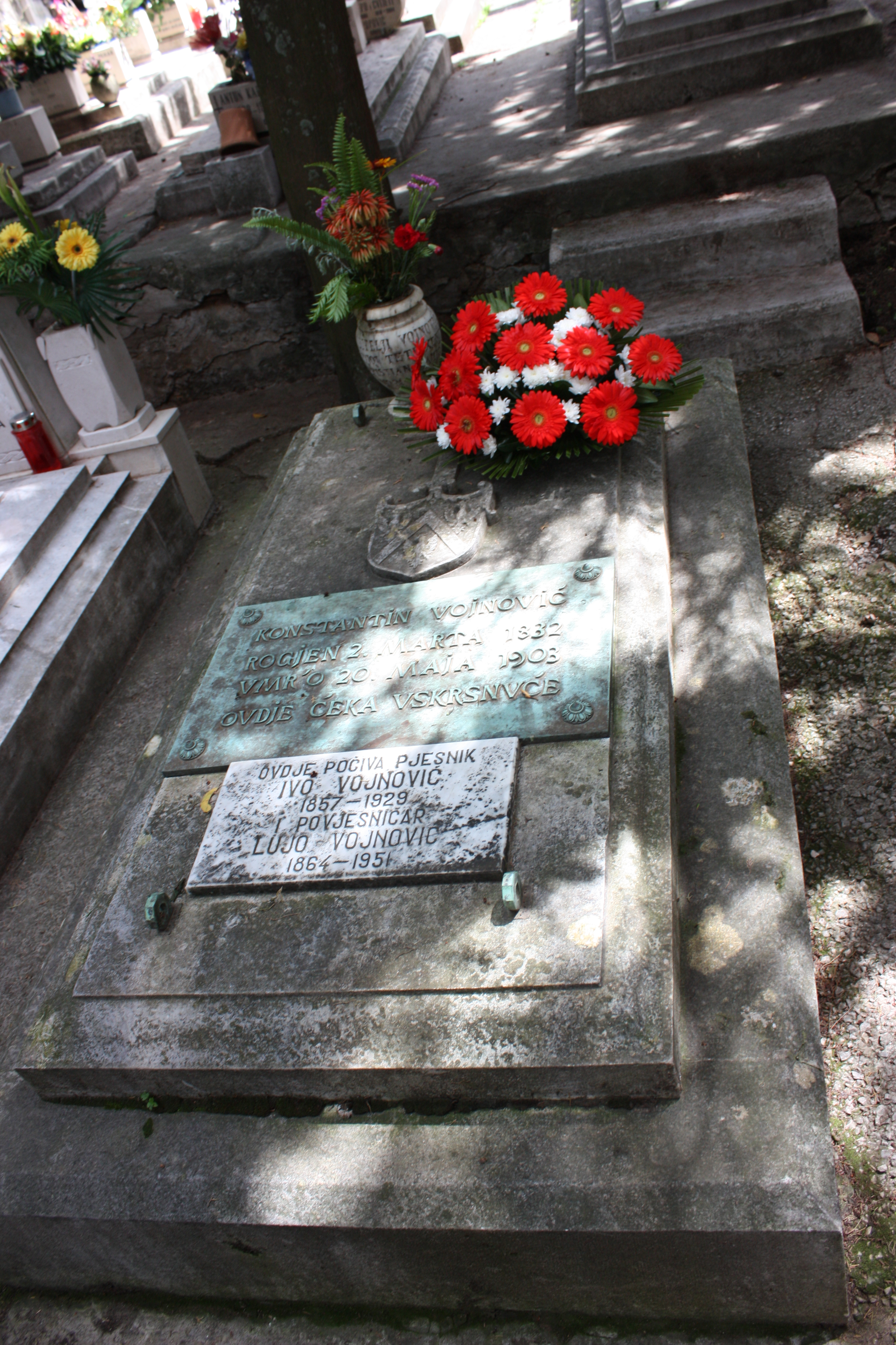 Grave of poet and writer Ivo Vojnović in Dubrovnik